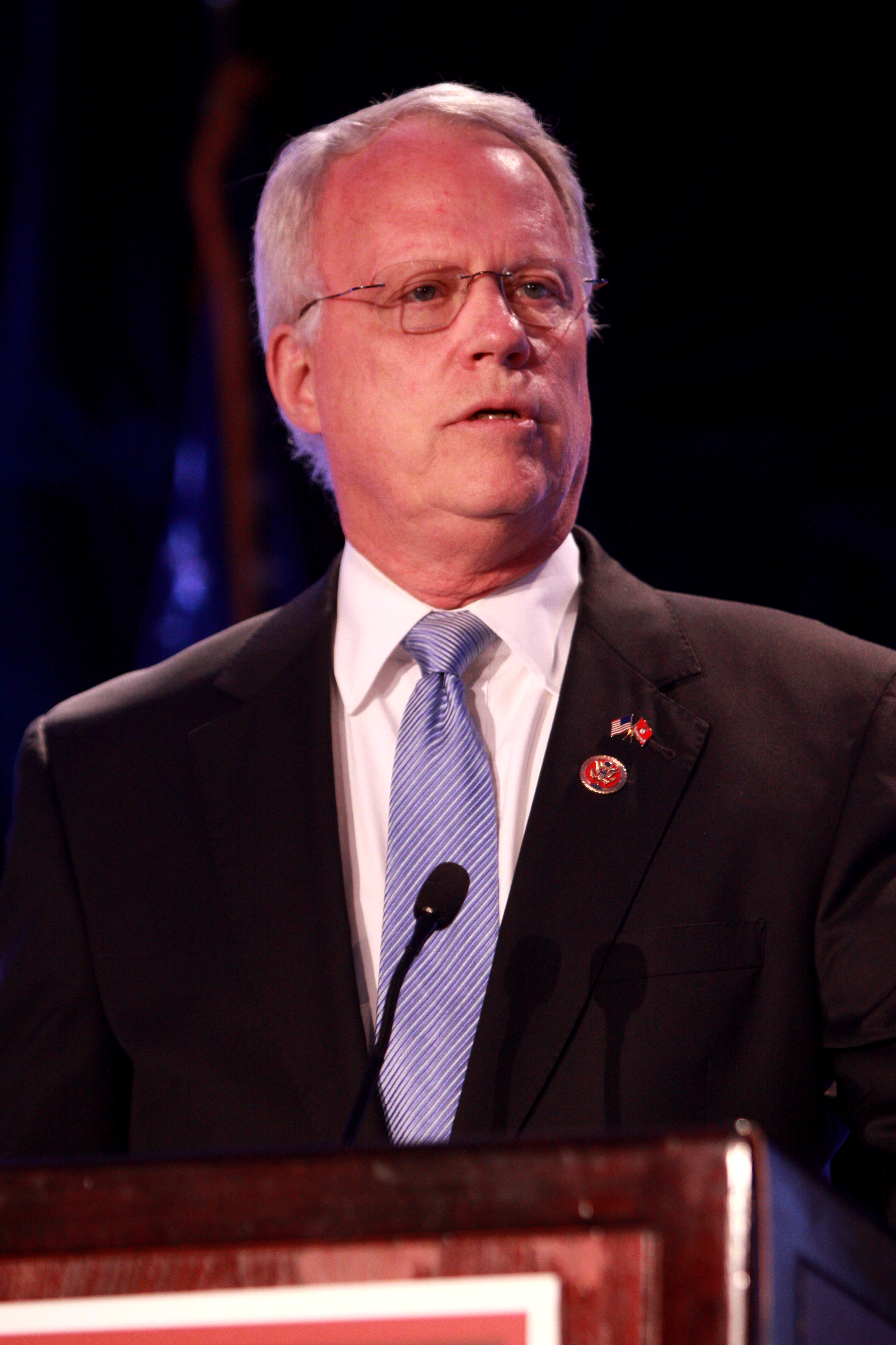 Congressman Paul Broun of Georgia speaking at the 2013 Liberty Political Action Conference (LPAC) in Chantilly, Virginia.